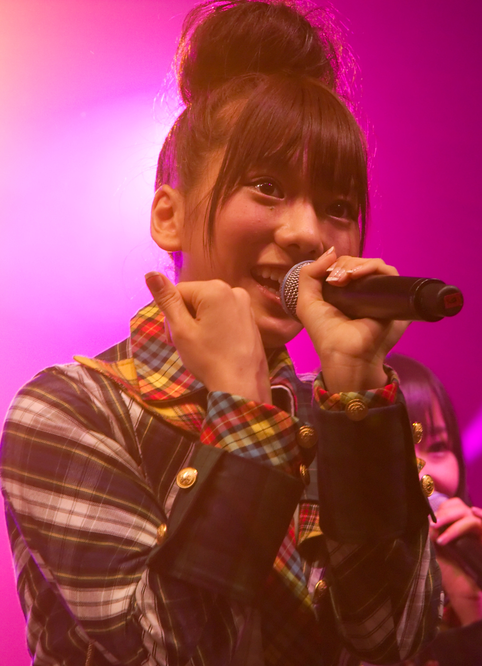 AKB48 live at Japan Expo 2009 (Paris, France).